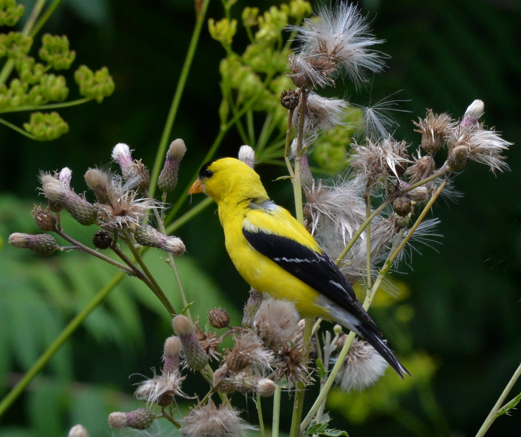 Male american goldfinch (Carduelis tristis) in Scarlett Mills Park in Toronto, Canada